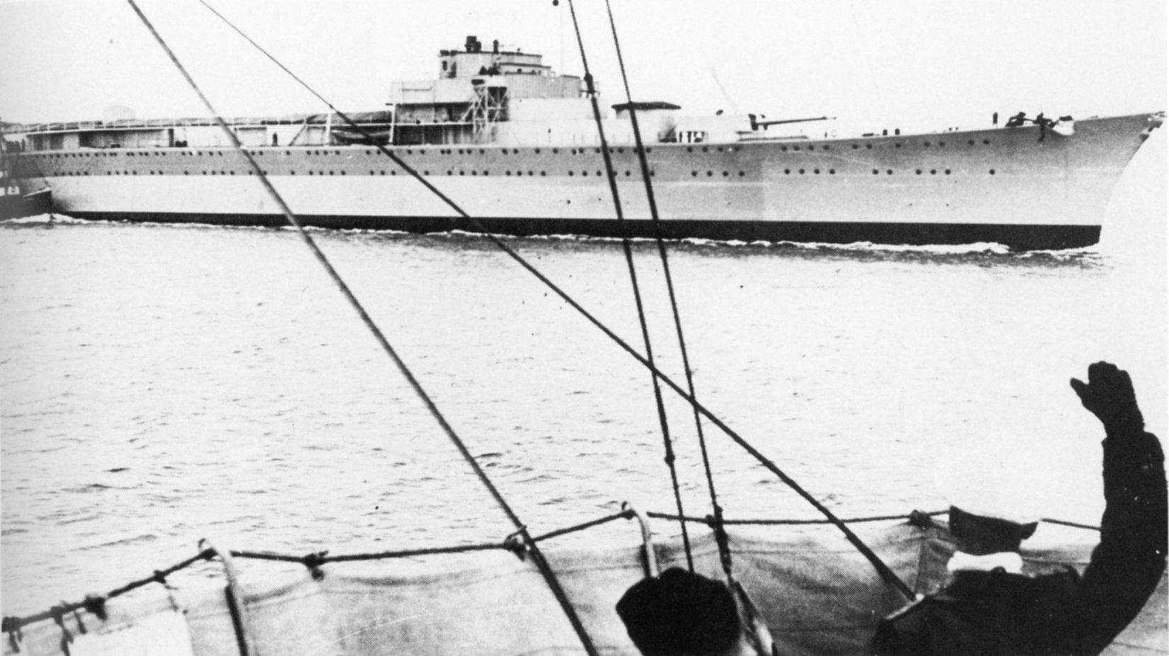 Soviet cruiser Lyutsov, former German cruiser Lützow, April 1940.